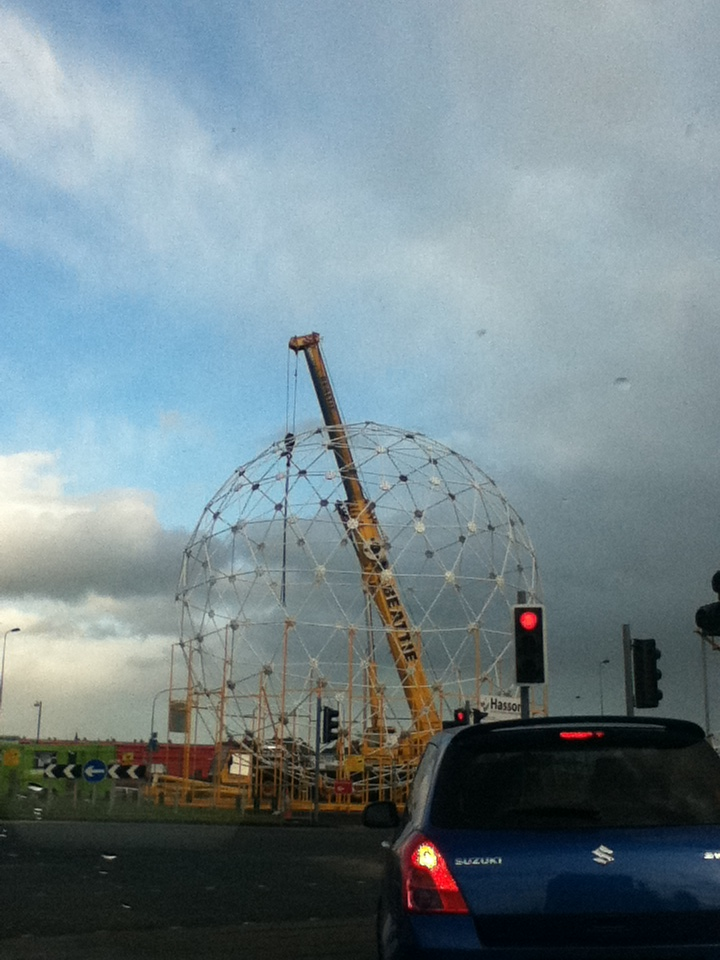 This photo shows the sculpture "Rise" in Belfast whilst under construction